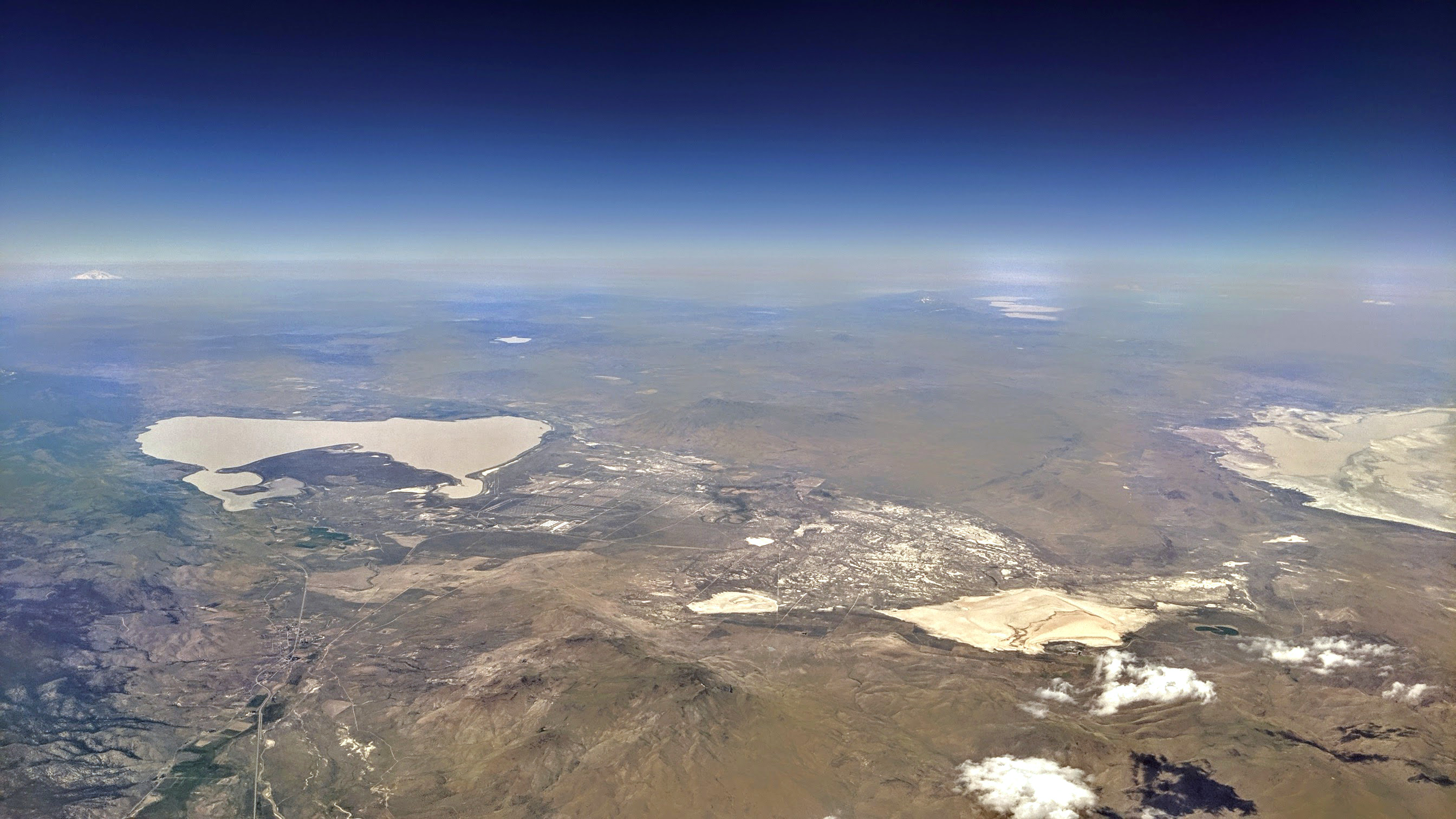 Aerial view of Honey Lake and Herlong, California, and vicinity including some of Nevada